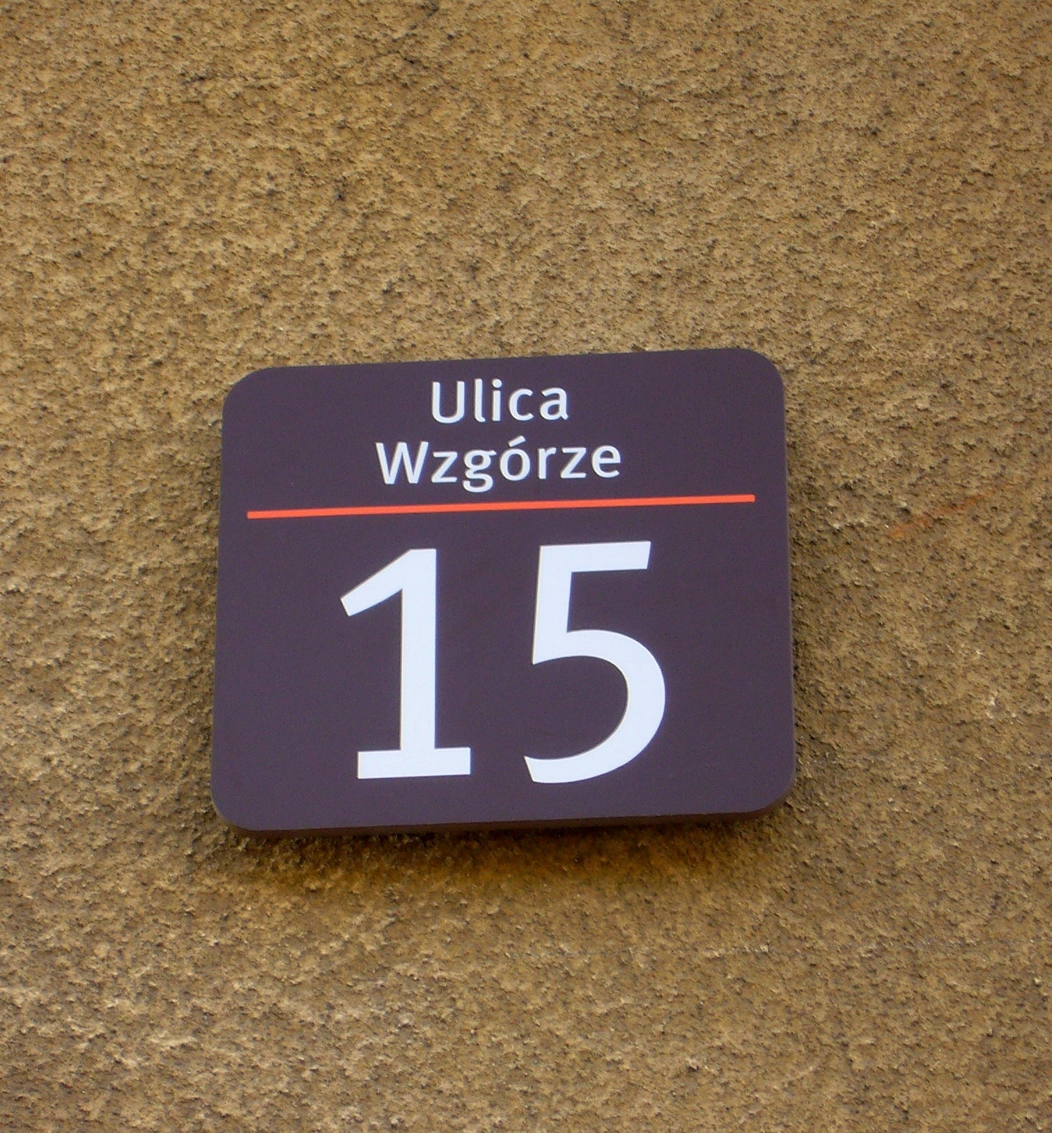 Typical house noumber in Bielsko-Biała (ul. Wzgórze 15).